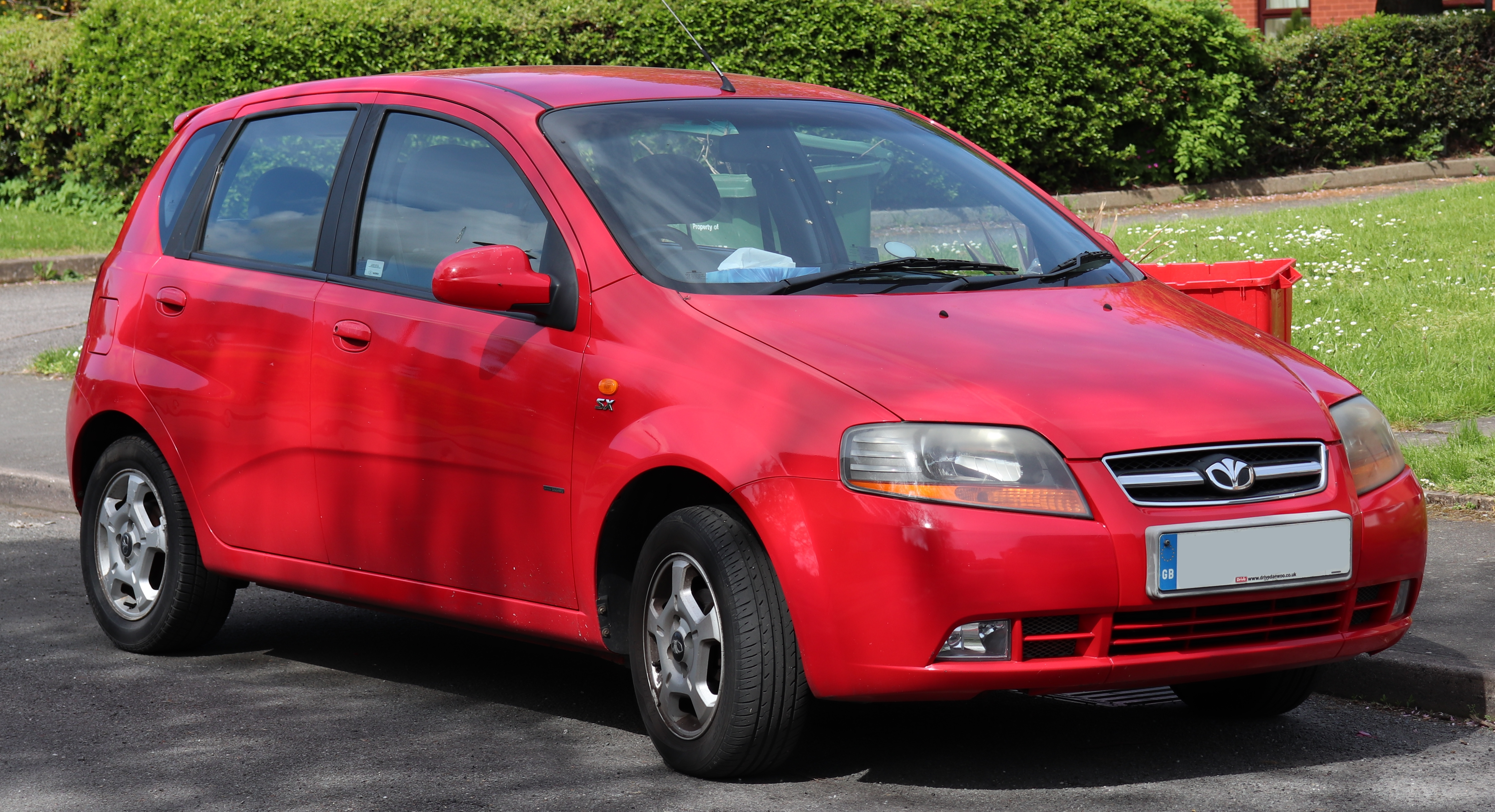 2005 Daewoo Kalos SX 16V 1.4 Front Taken in Milverton